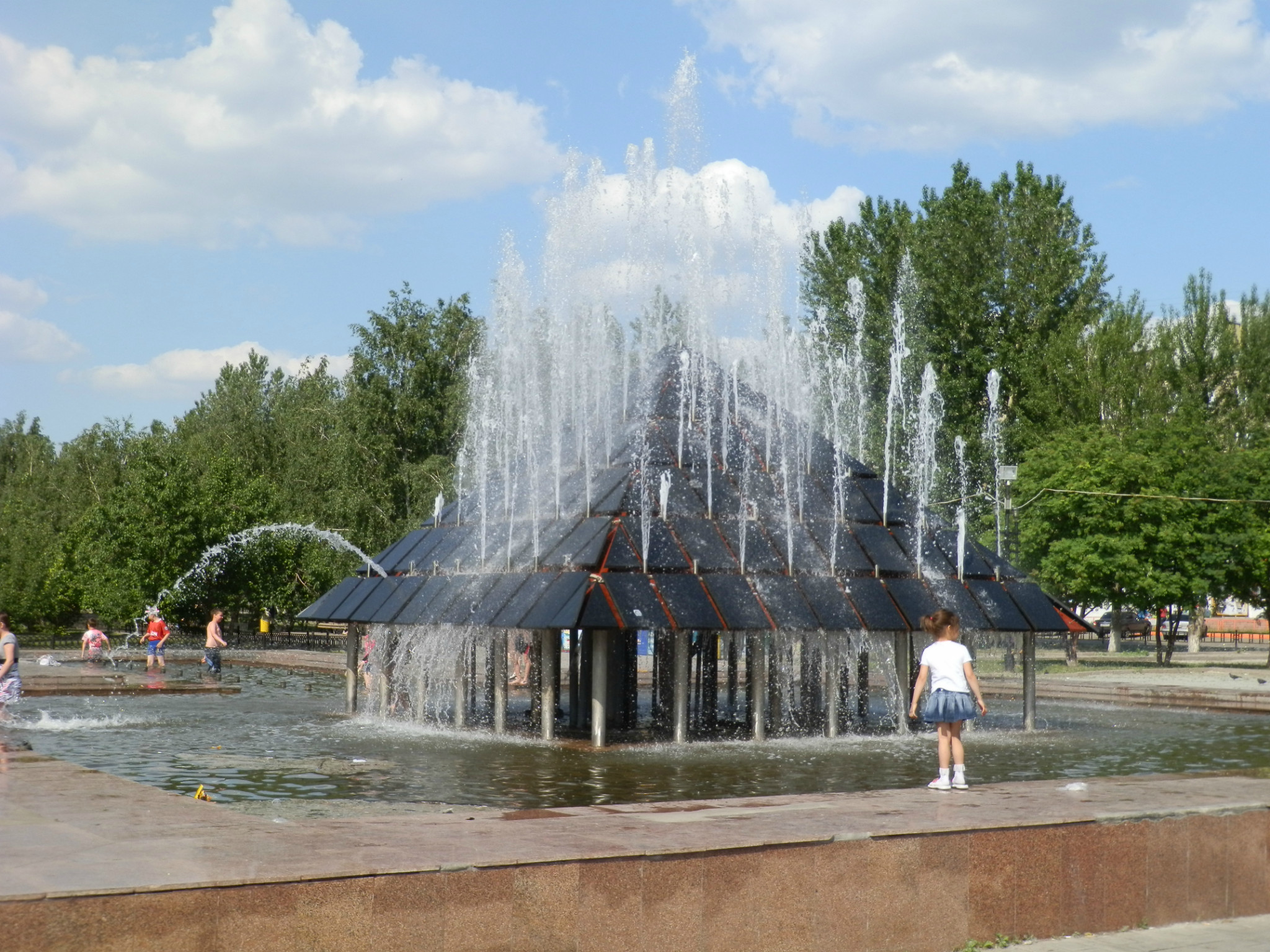 fountain from Kopejsk main place